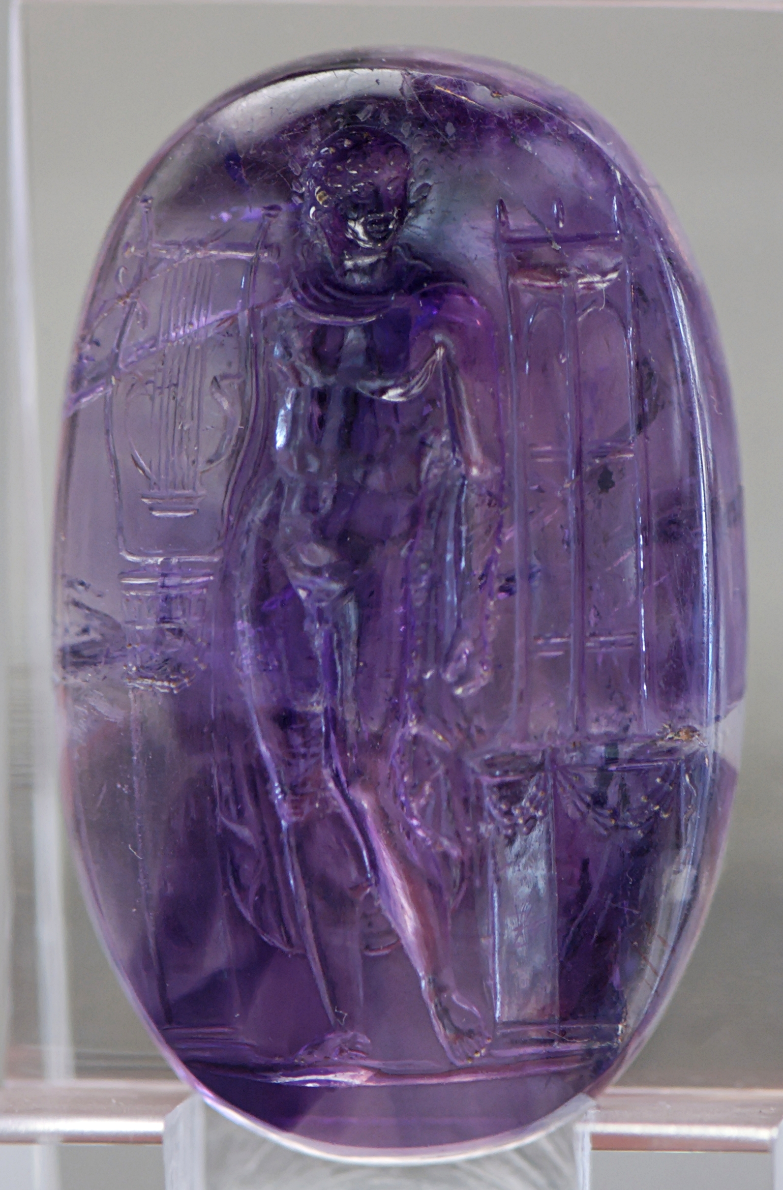 Emperor Nero as Apollo playing the lyre, Roman intaglio